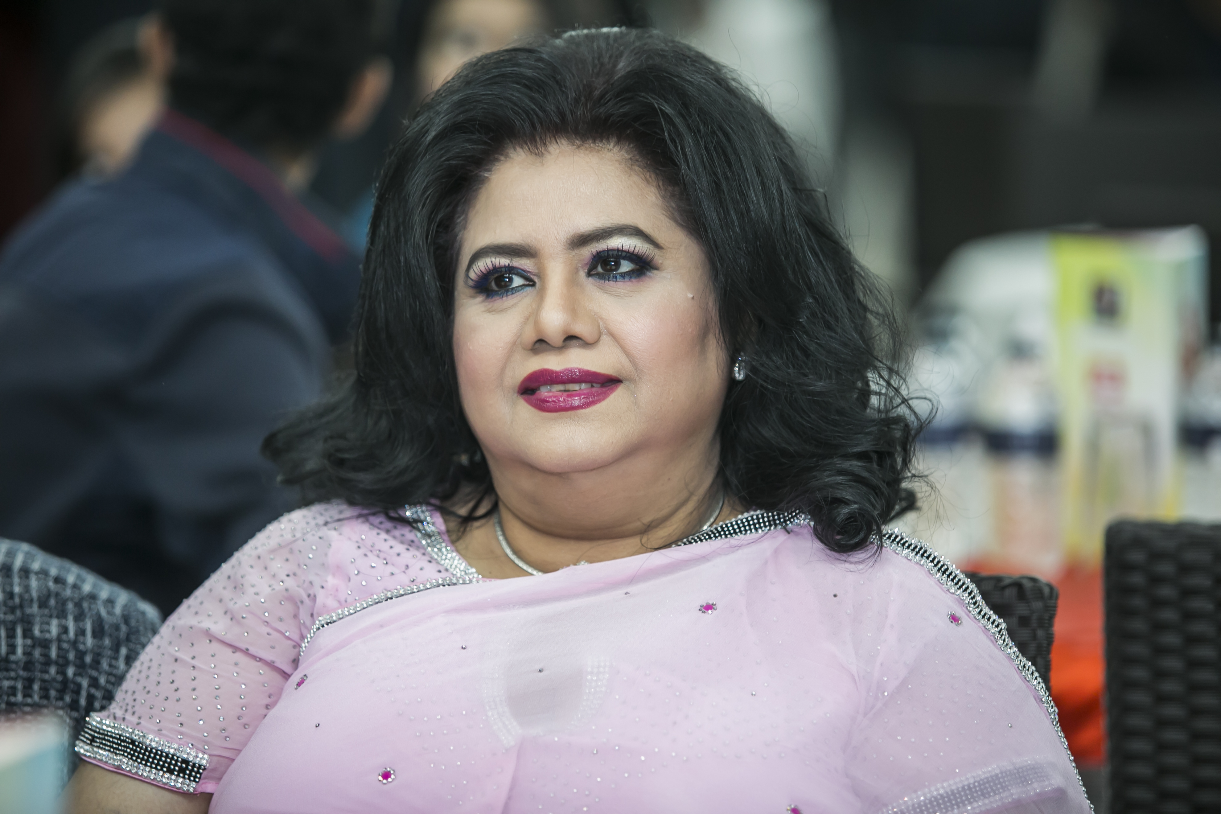 Runa Laila is a Bangladeshi, widely regarded as one of the popular singers in South Asia